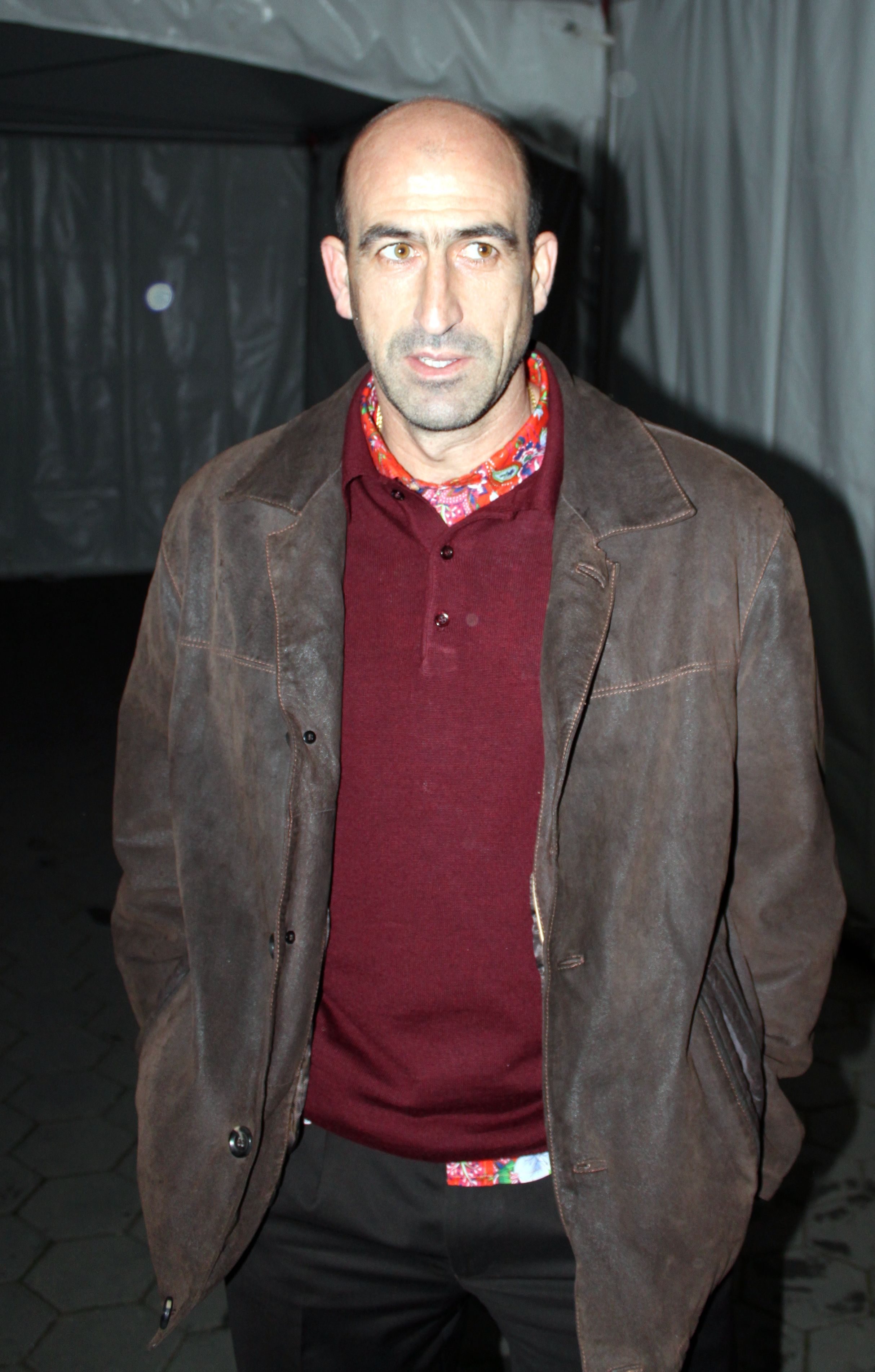 Yordan Letchkov (also transliterated Jordan, Iordan, Lechkov) (Bulgarian: Йордан Лечков) (born July 9, 1967 in Straldzha) is a former Bulgarian footballer and the current mayor of Sliven.